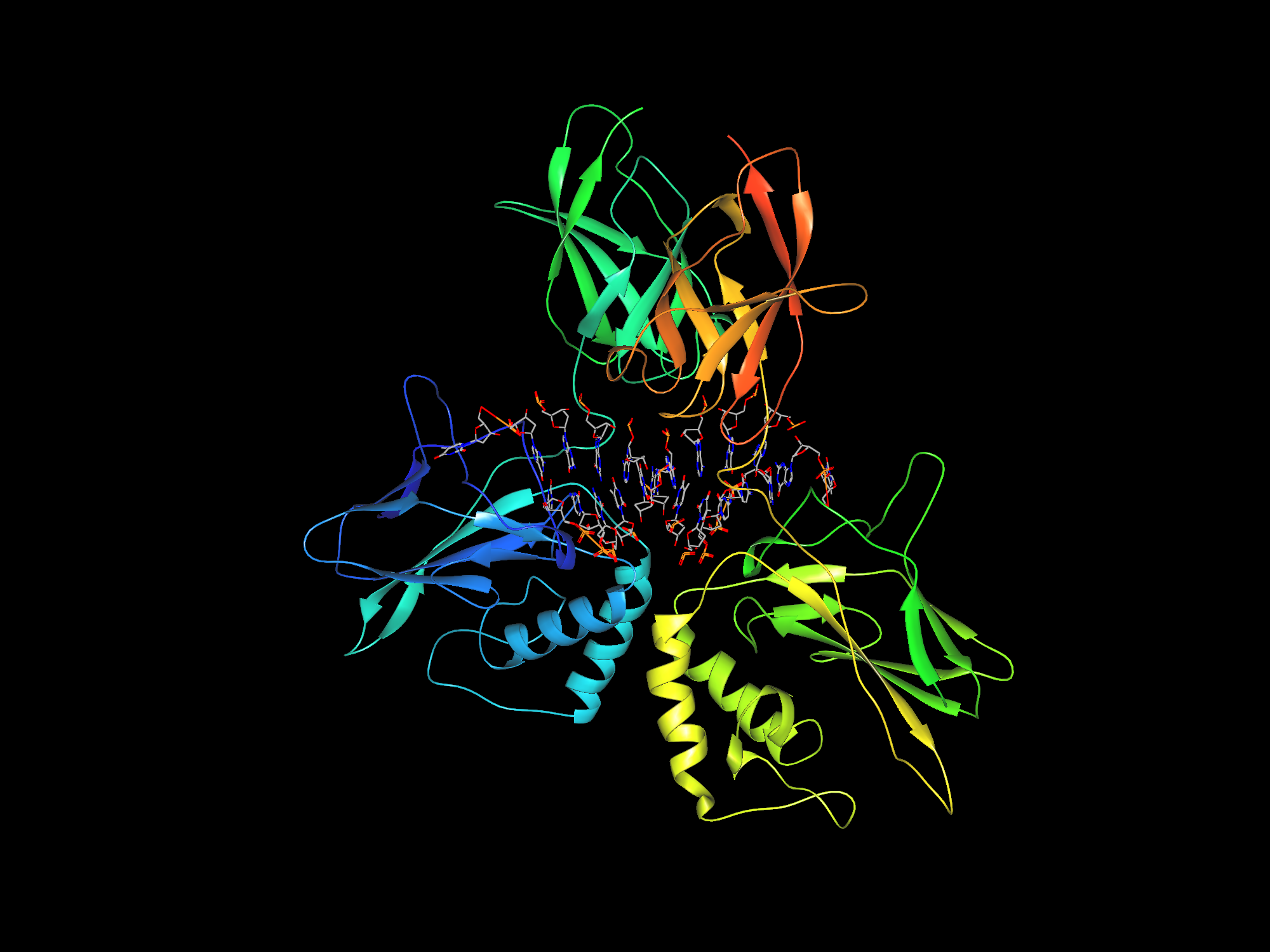 Strukcture of NF-kB